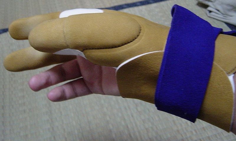 Kyudo yugake, a type of glove used in Japanese archery.